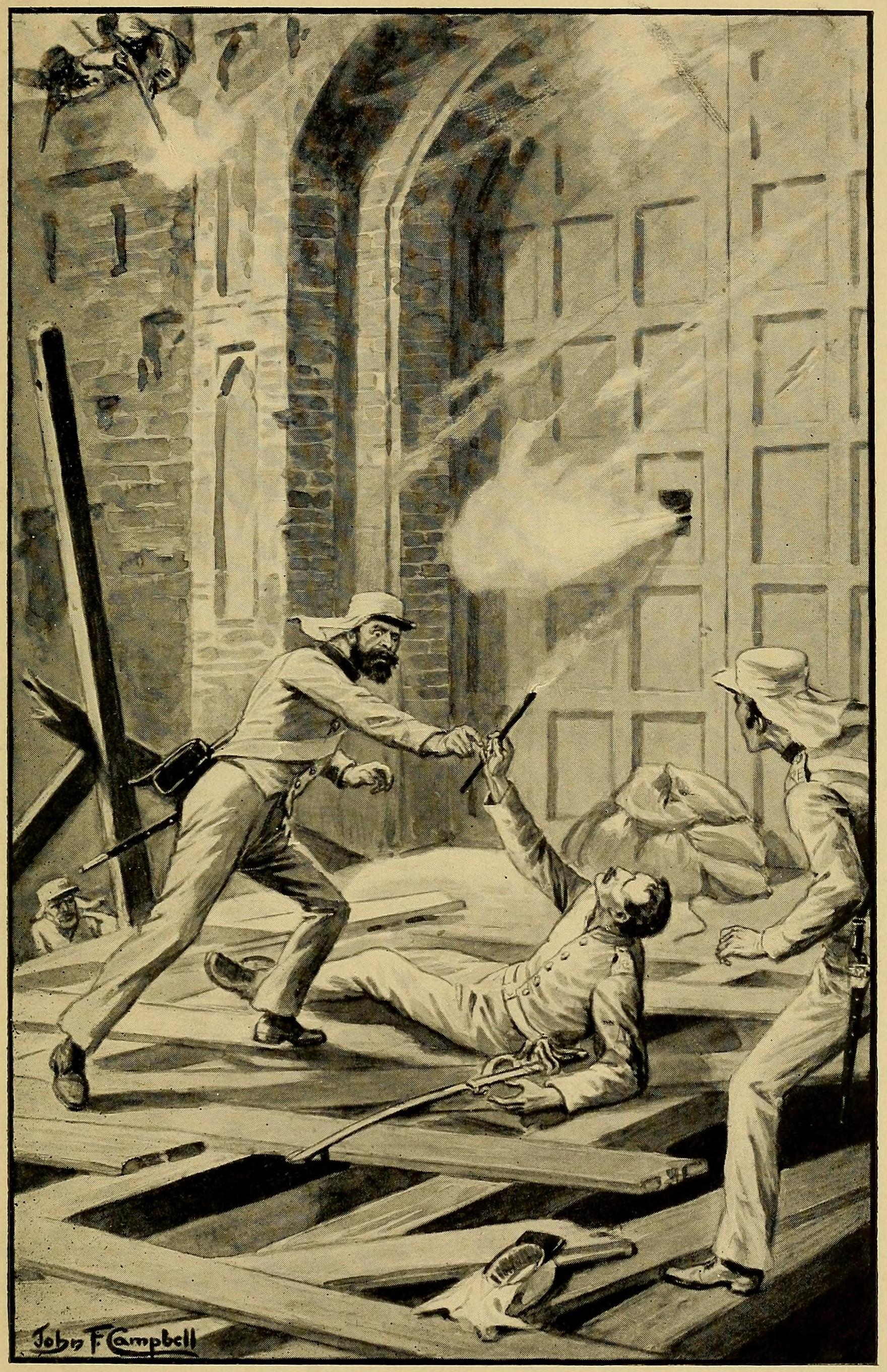 Heroes of the Indian mutiny; stories of heroic deeds by Gilliat, Edward, 1841-1915 Publication date 1914 Publisher Philadelphia, J. B. Lippincott company; London, Seeley, Service & co., ld. Collection library_of_congress; americana Digitizing sponsor The Library of Congress Contributor The Library of Congress Language English Call number 5895008 Camera Canon 5D Identifier heroesofindianmu00gill Identifier-ark ark:/13960/t7jq1p012 Identifier-bib 00009675930 Ocr ABBYY FineReader 8.0 Openlibrary_edition OL24239669M Openlibrary_work OL15222791W Page-progression lr Pages 382 Possible copyright status The Library of Congress is unaware of any copyright restrictions for this item. Ppi 400 Scandate 20100604151749 Scanner Scanningcenter capitolhill Full catalog record MARCXML